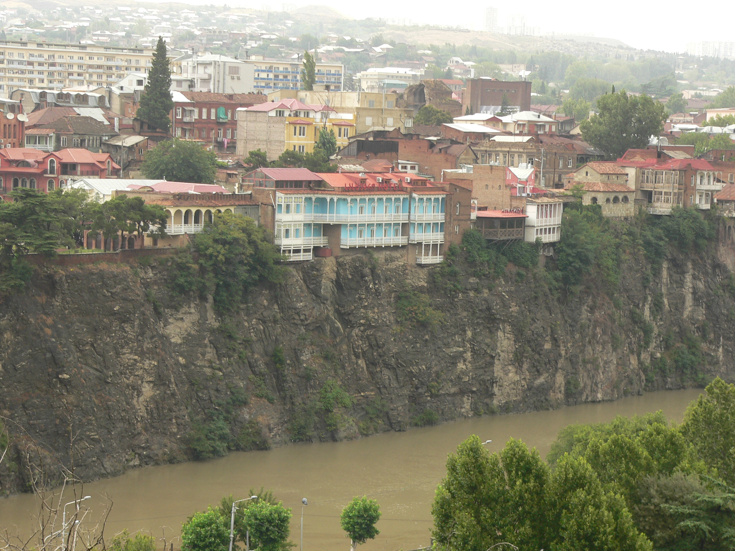 View of the city from Narikala Fortress. Tbilisi, Georgia.